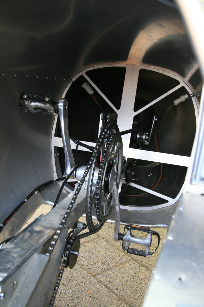 Inside the Alleweder